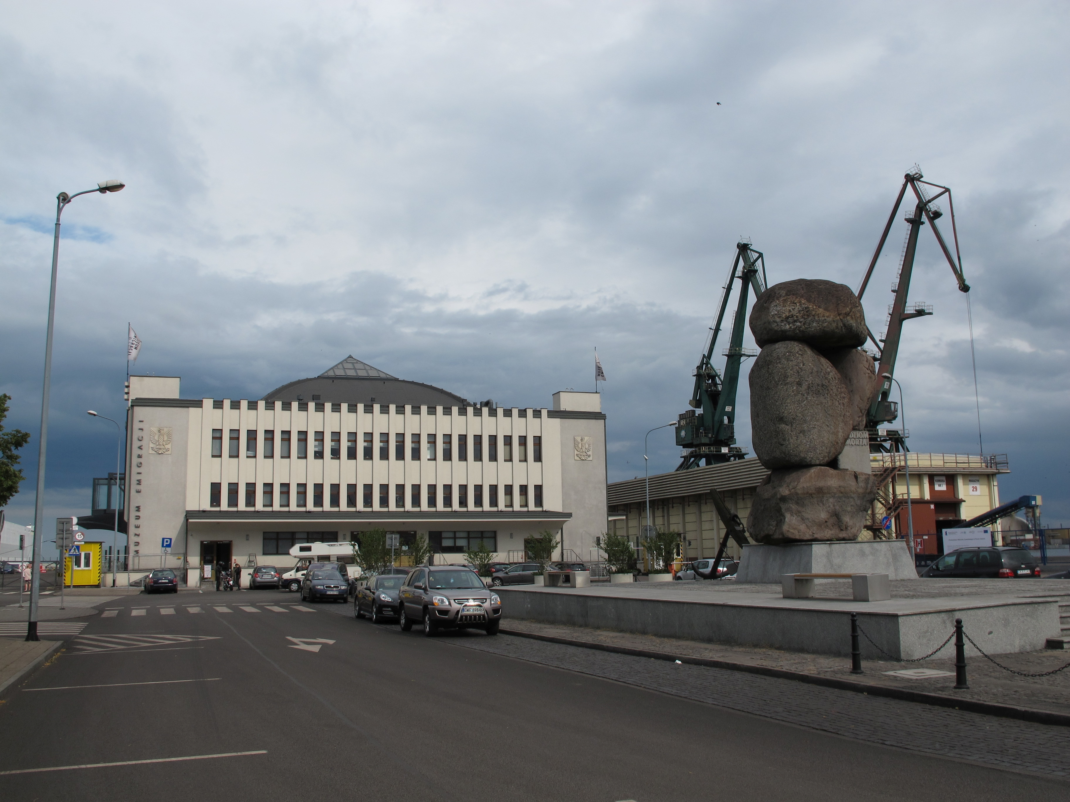 Gdynia - Maritime Terminal